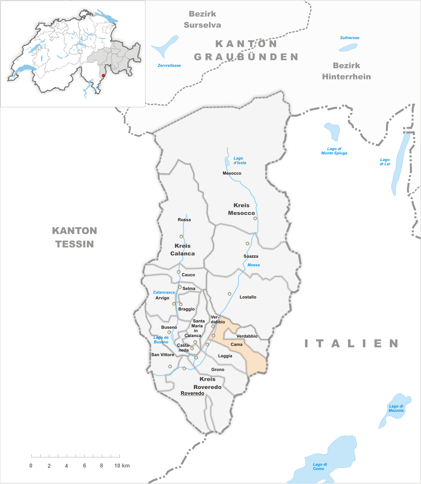 Municipality Cama